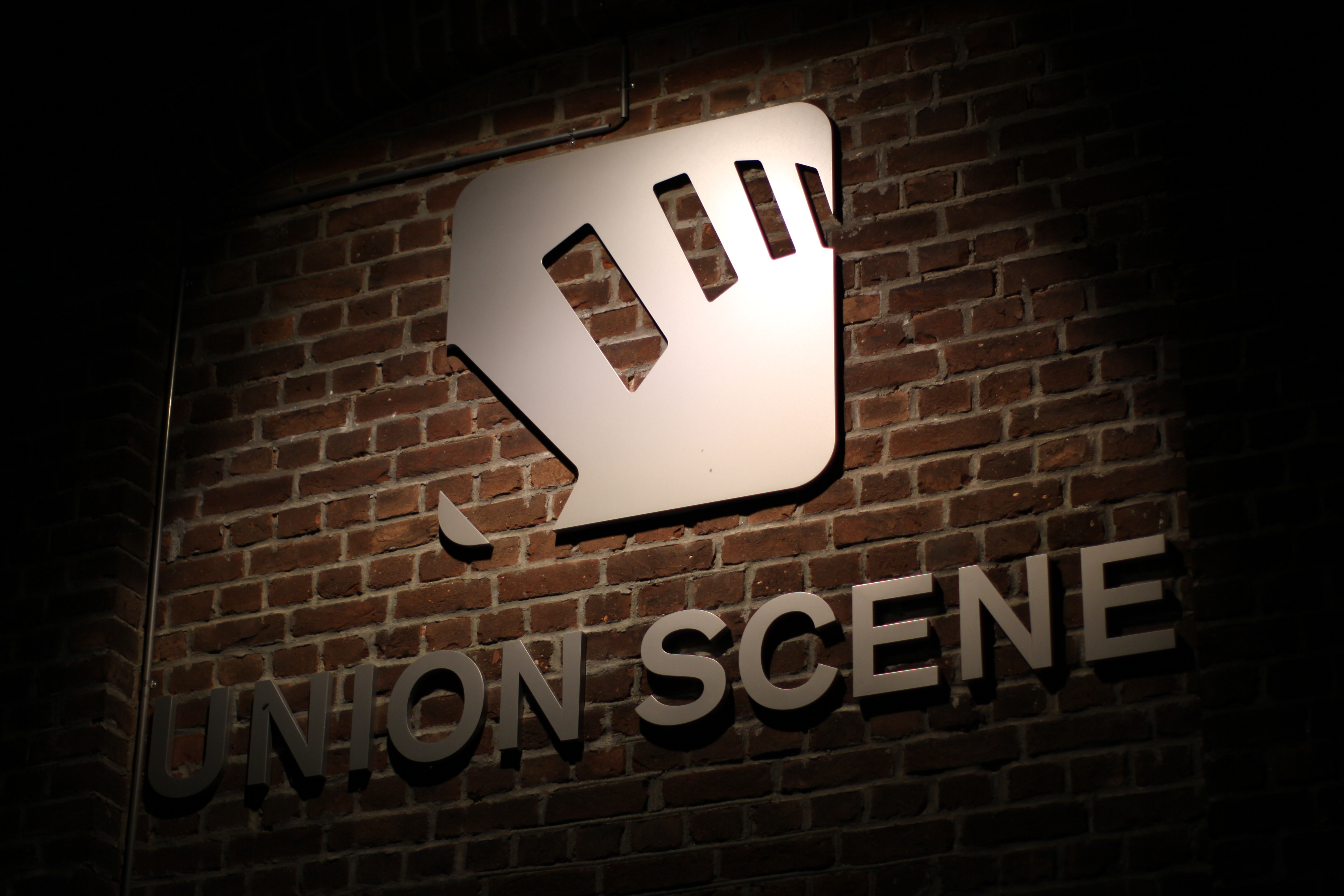 Picture of Union Scene Drammen